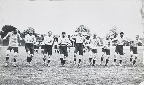 Australasian team prior to the first match of the 1911-12 Kangaroo tour.